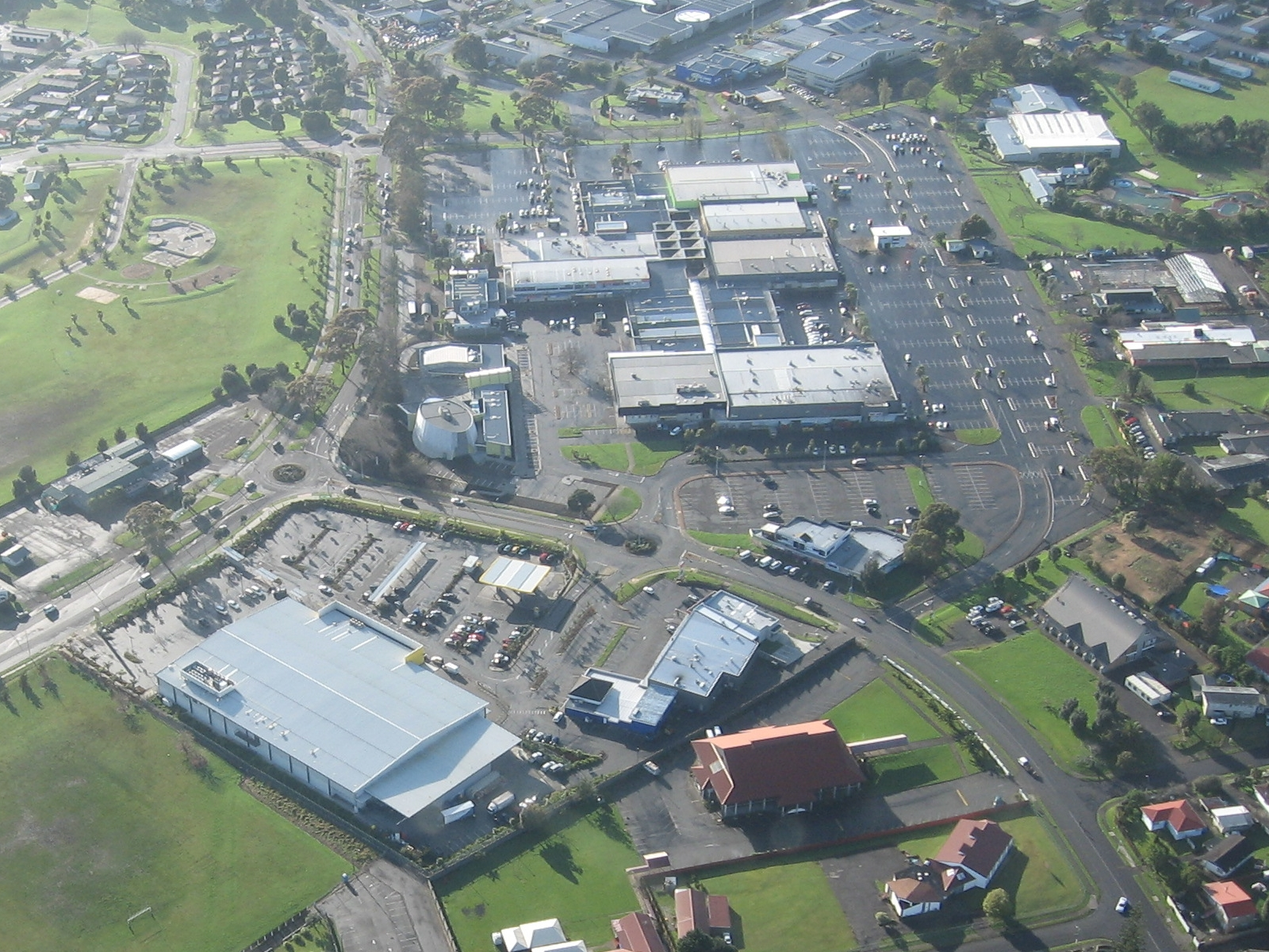 The Mangere Town Centre in Auckland, New Zealand. Sadly, this car-park scarred excuse for a real community and retail centre is an all-too-common example of Auckland's obsession with creating a car-centric city. Looking east from a light plane.